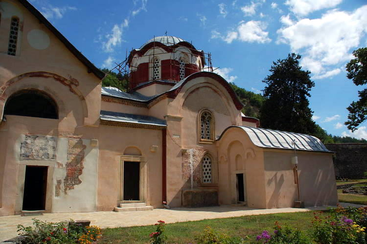 Church of St Nicholas at the Patriarchate of Peć.